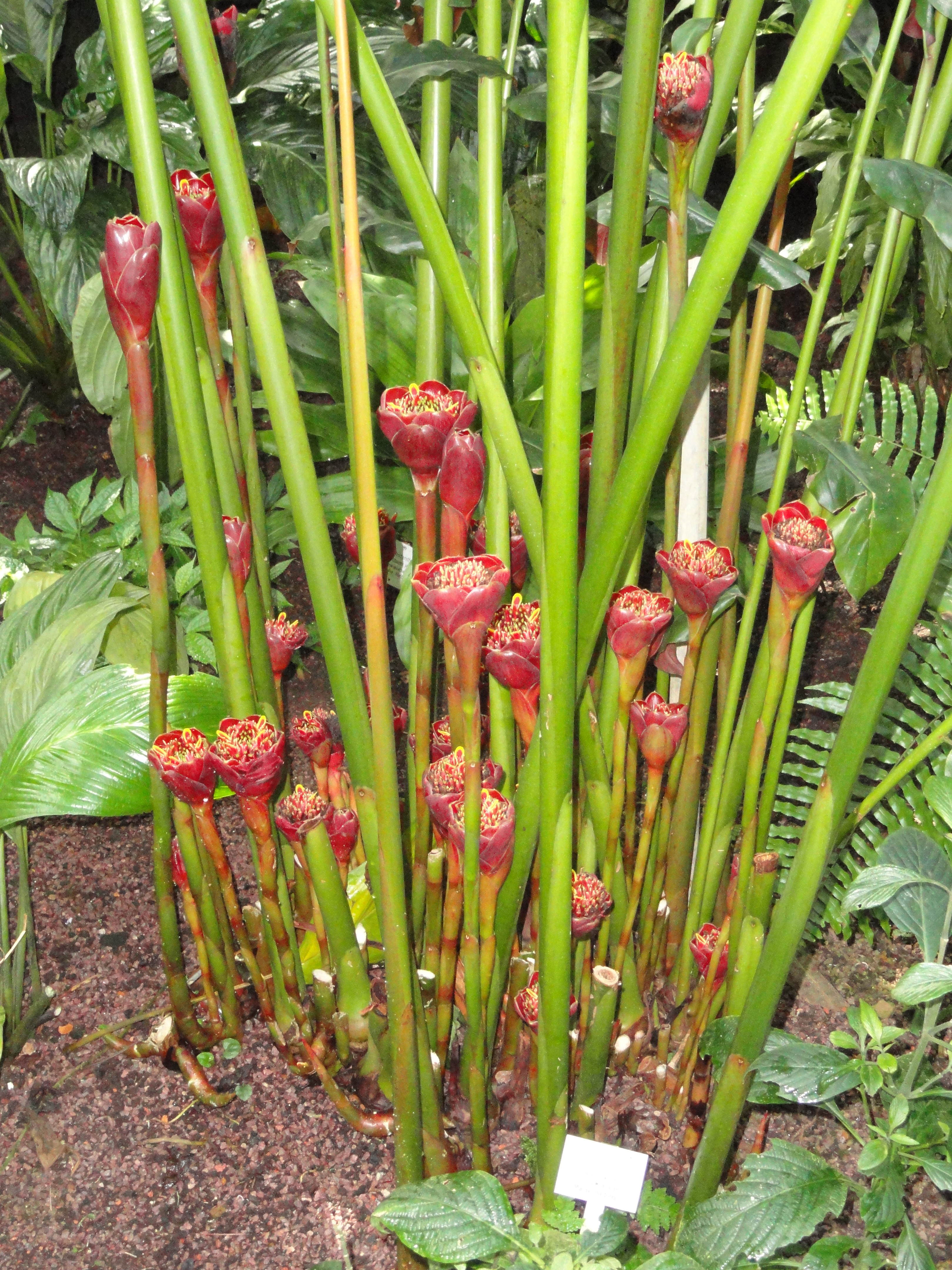 Botanical specimen in the Palmengarten, Frankfurt am Main, Germany.